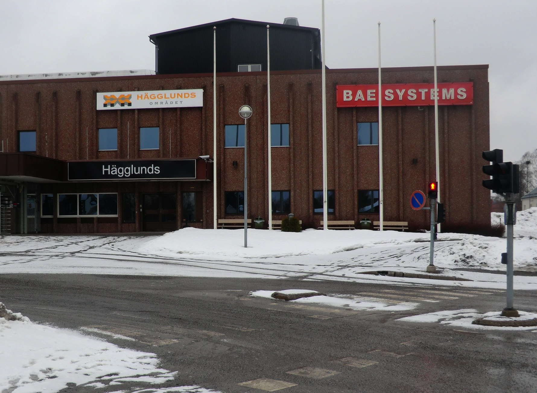 BAE Systems at Gullänget, Örnsköldsvik